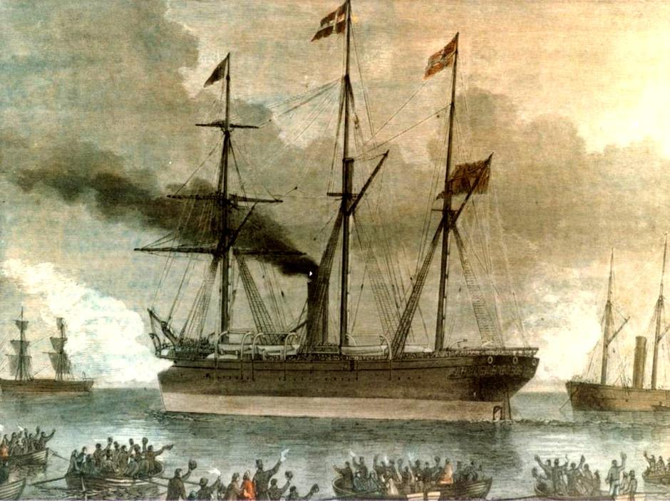 SS Ottawa. first emigrant ship on Copenhagen - New York by way of Gotehnburg and Oslo. It only made one voyage for the company American Emigrant Aid & Homestead Company. sourve sourve.